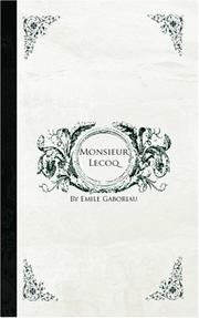 This image described the cover of the novel Monsieur Lecoq by Émile Gaboriau